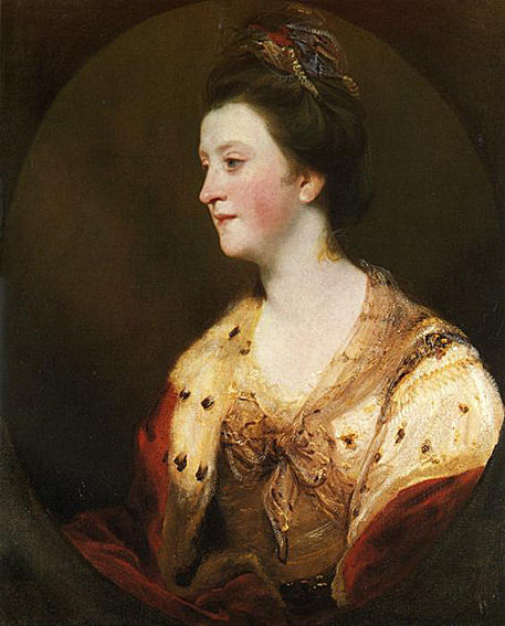 Portrait of Emily FitzGerald, Duchess of Leinster (1731-1814)